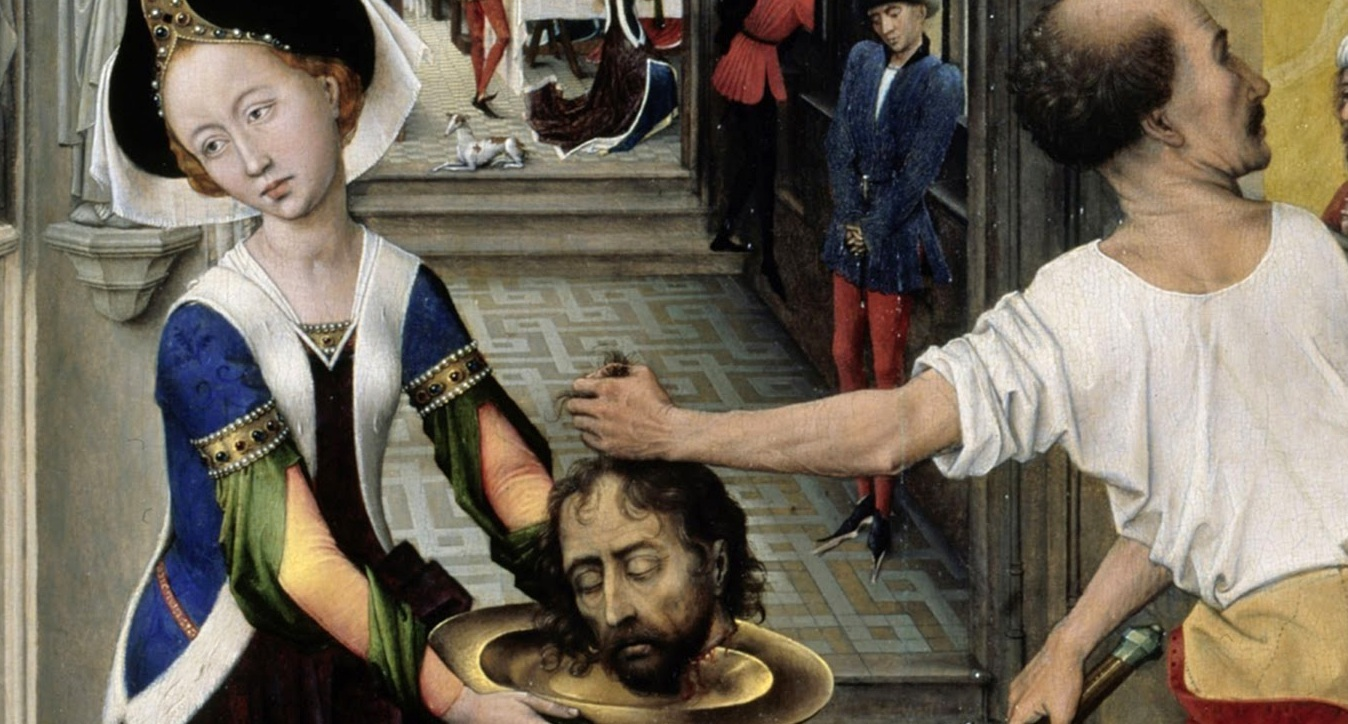 The Altar of St. John